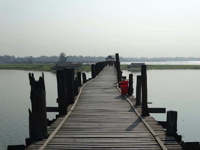 U bein Bridge